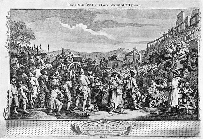 William Hogarth - Industry and Idleness, Plate 11; The Idle 'Prentice Executed at Tyburn